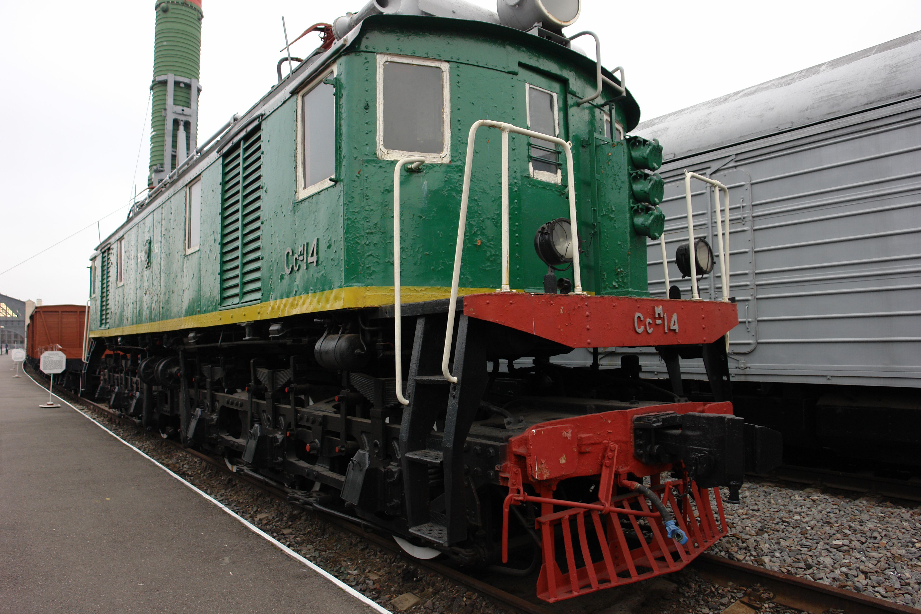 Freight electric locomotive SSM14 Current system3000 Vd.c.Weight in working order132t.Design speed70 kphPower (hourly rating)2040 kW Built in 1933. In 1932, the General Electric Company produced 8 electric locomotives of class S for the service on the Suram pass section of the Trans-Caucasus Railway in Georgia. The Kolomna and Dinamo works built 21 similar locomotives in 1932-34 as class Ss.